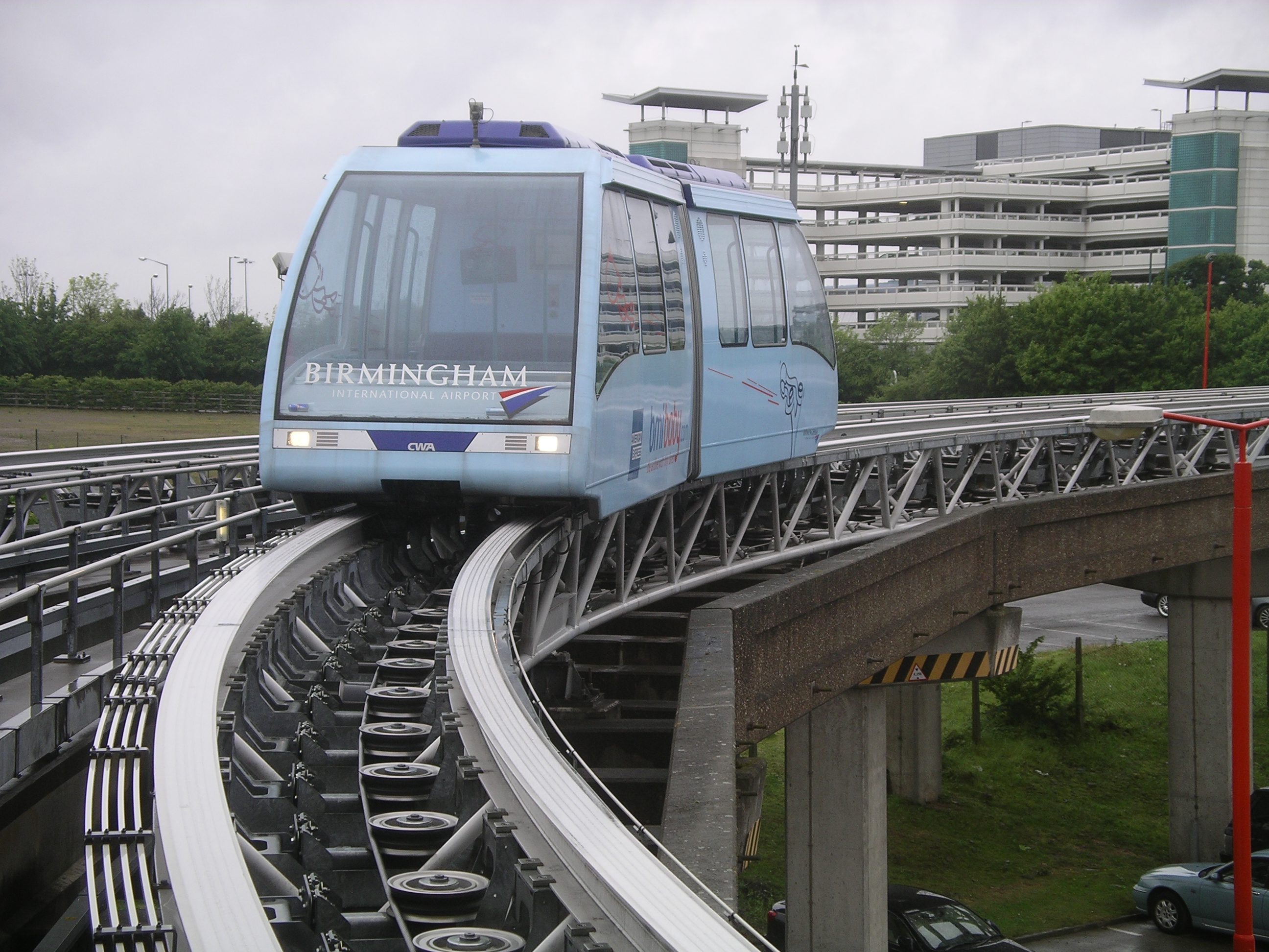 Passenger cars on the overhead train and the track that connects Birmingham Airport to Birmingham International railway station, West Midlands, England.